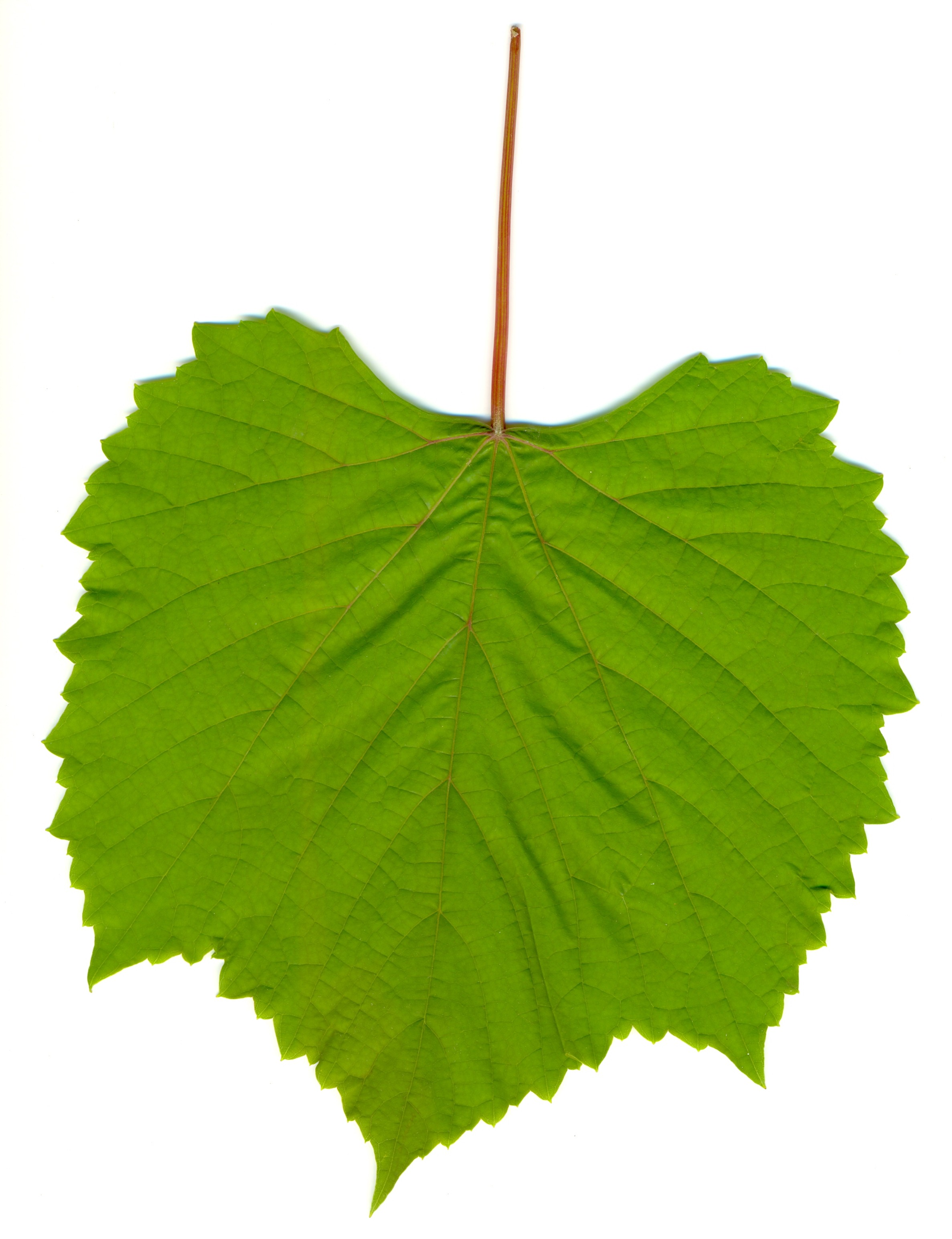 This is a kind of grape leaf, this is the upper side of the leaf, in this kind of tree the fruit doesnt grow up big just small fruit very acid, this tree its called "male tree" and is used to make food plate (Stuffed Grape Leaves with Meat & Rice), this tree is coming from the land of middle east from early 40's by Joseph Sanki he bring only one, and now in Venezuela are approximately twenty thousand (20.000) there are trees coming from the same "mother tree". Two of them are in venezuela, at my home and I am very proud to have them, the big leaf I found in my trees the sizes is 9"x9" inches.